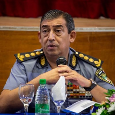 jefe policia misiones